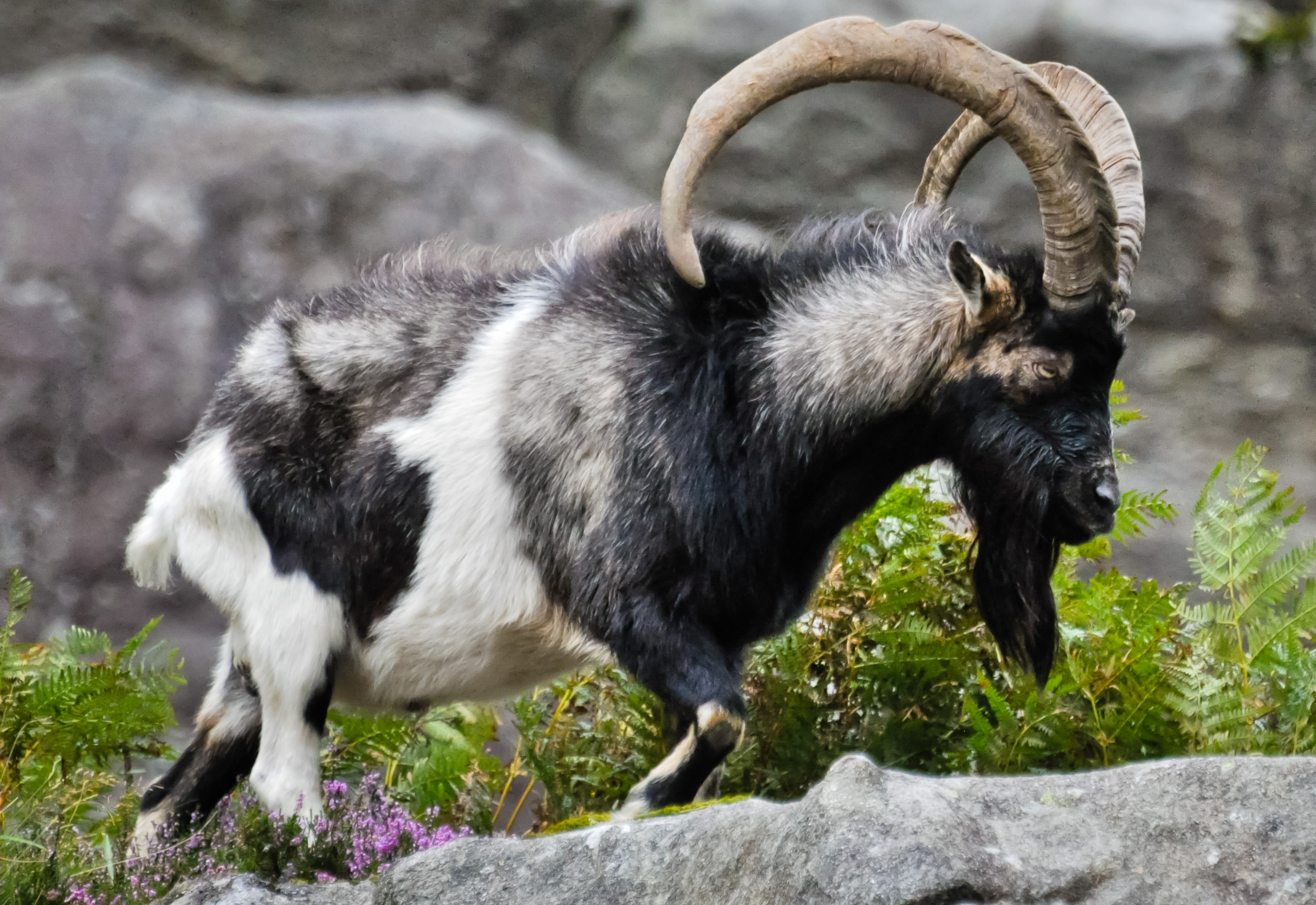 A feral goat in the Glenealo Valley, Glendalough, County Wicklow, Ireland